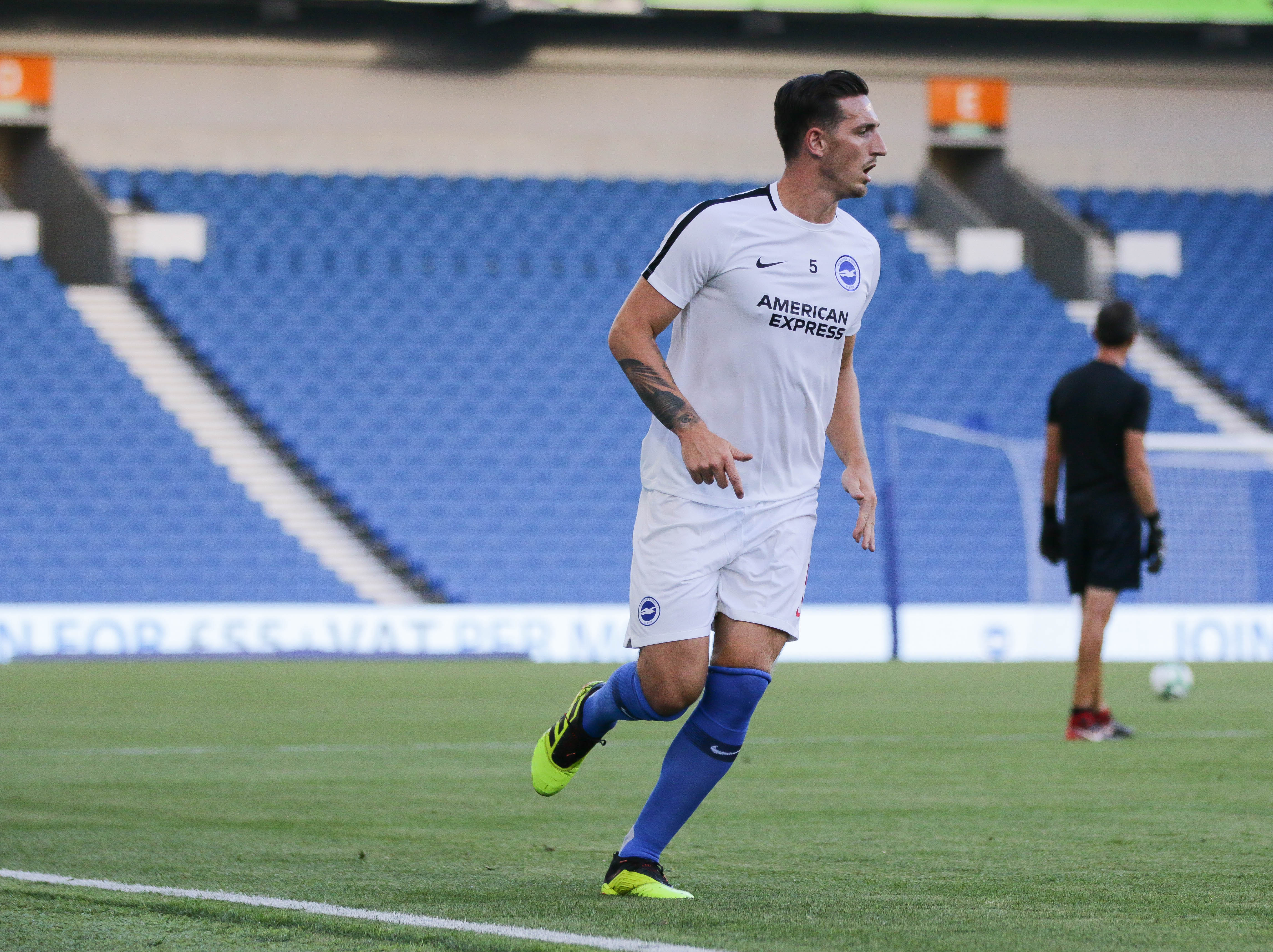 BHA v FC Nantes pre season 03 08 2018-50.jpg